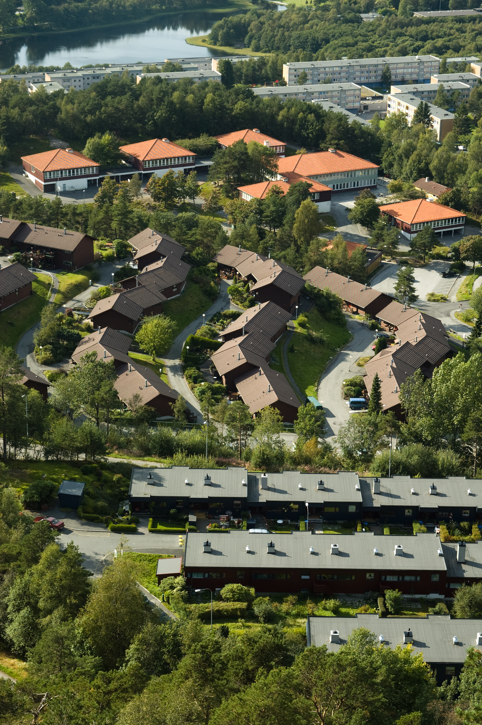 A variety of typical apartment buidlings and terraced houses in Fyllingsdalen in Bergen, Norway.